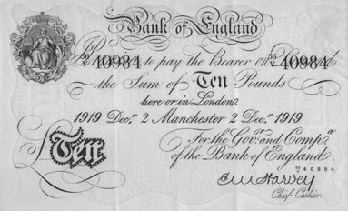 Observe side of ten-pound sterling banknote, issued from Manchester